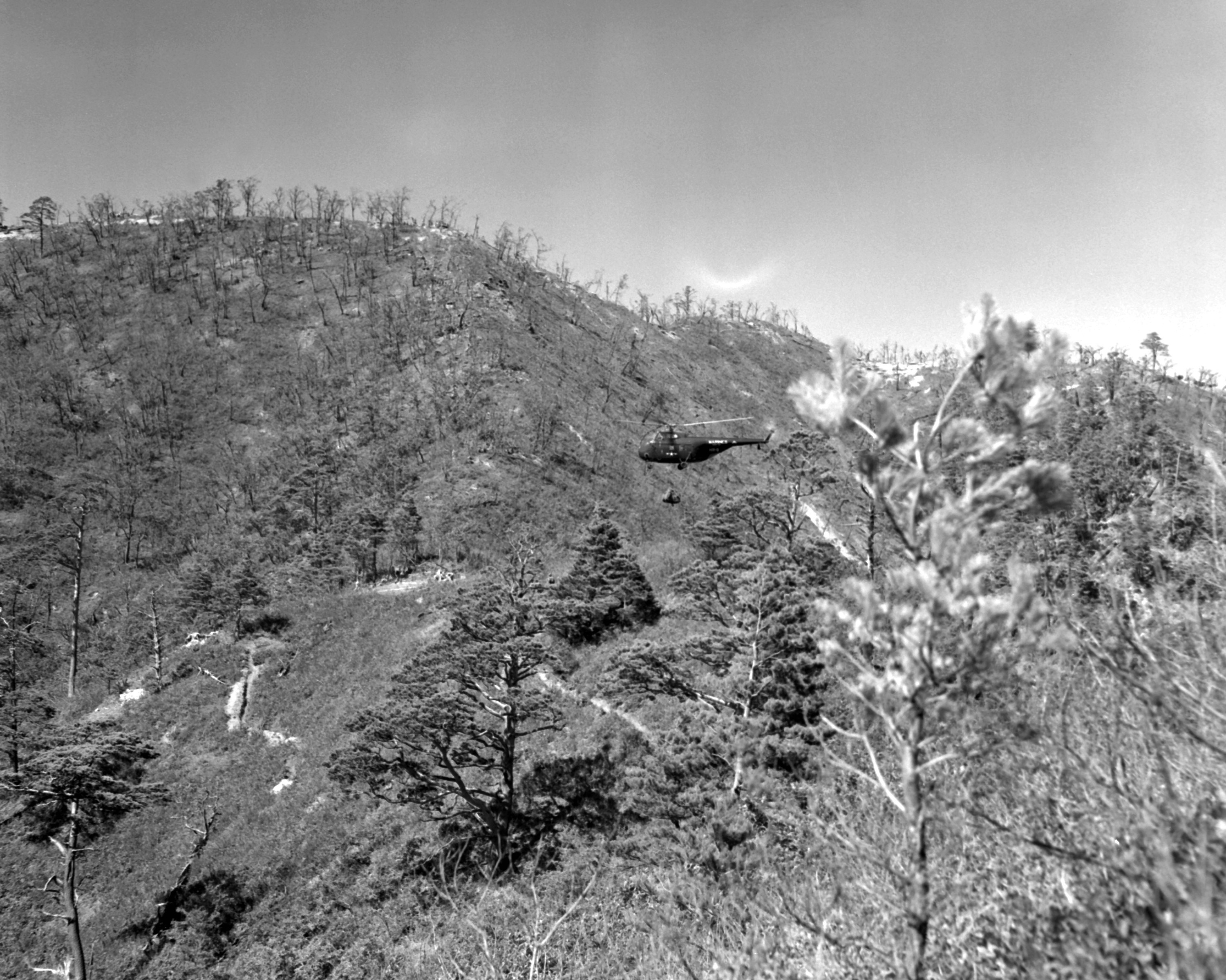 A U.S. Marine Corps Sikorsky HRS-1 of Helicopter Transport Squadron HMR-161 approaches Hill 812 during the Battle of the Punchbowl, Korea, in September 1951. Original caption: "US Marines of the first Marine Division reconnaisance Co. make the first helicoptger invasion on Hill 812, to relieve ROK Eighth Division during the renewed fighting in Korea. US Marines without a single casualty to men or equipment. Helicopter approaches Hill 812, with another load of supplies for the Marines."